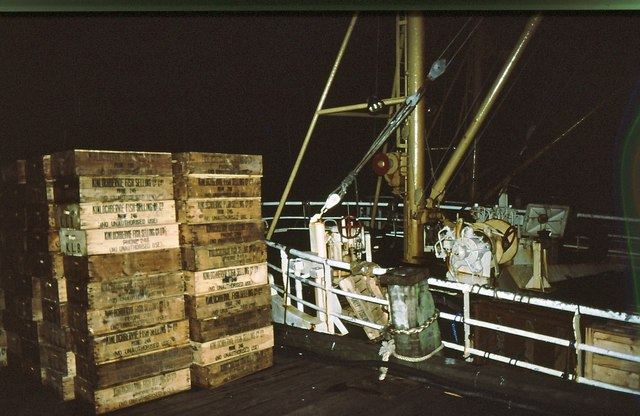 Fish boxes awaiting loading at Clash harbour The fishermen refer to Kinlochbervie as Clash. The traditional wooden fish boxes have now been replaced with the plastic variety and sadly most of the fishing boats have been replaced by yachts.